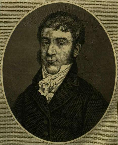 Portrait of Dániel Gecse